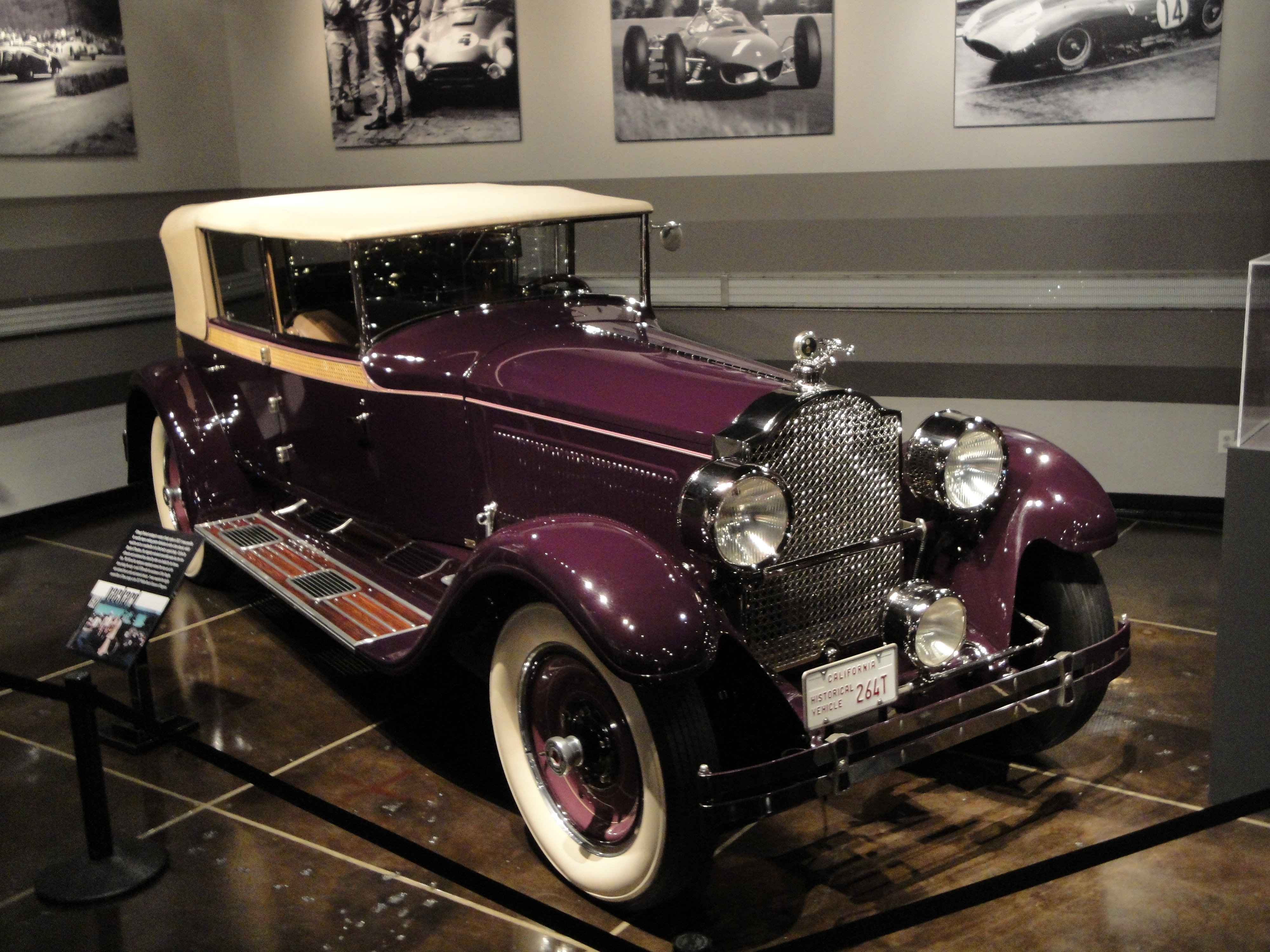 27 Packard by Murphy